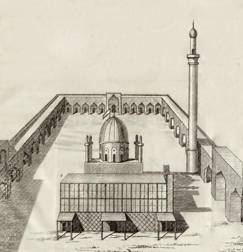 A drawing of the Imam Husayn Mosque by German explorer Carsten Niebuhr during his travels to the Middle East. He drew this illustration of the Imam Husayn Mosque upon his arrival to the city of Karbala in 1765.